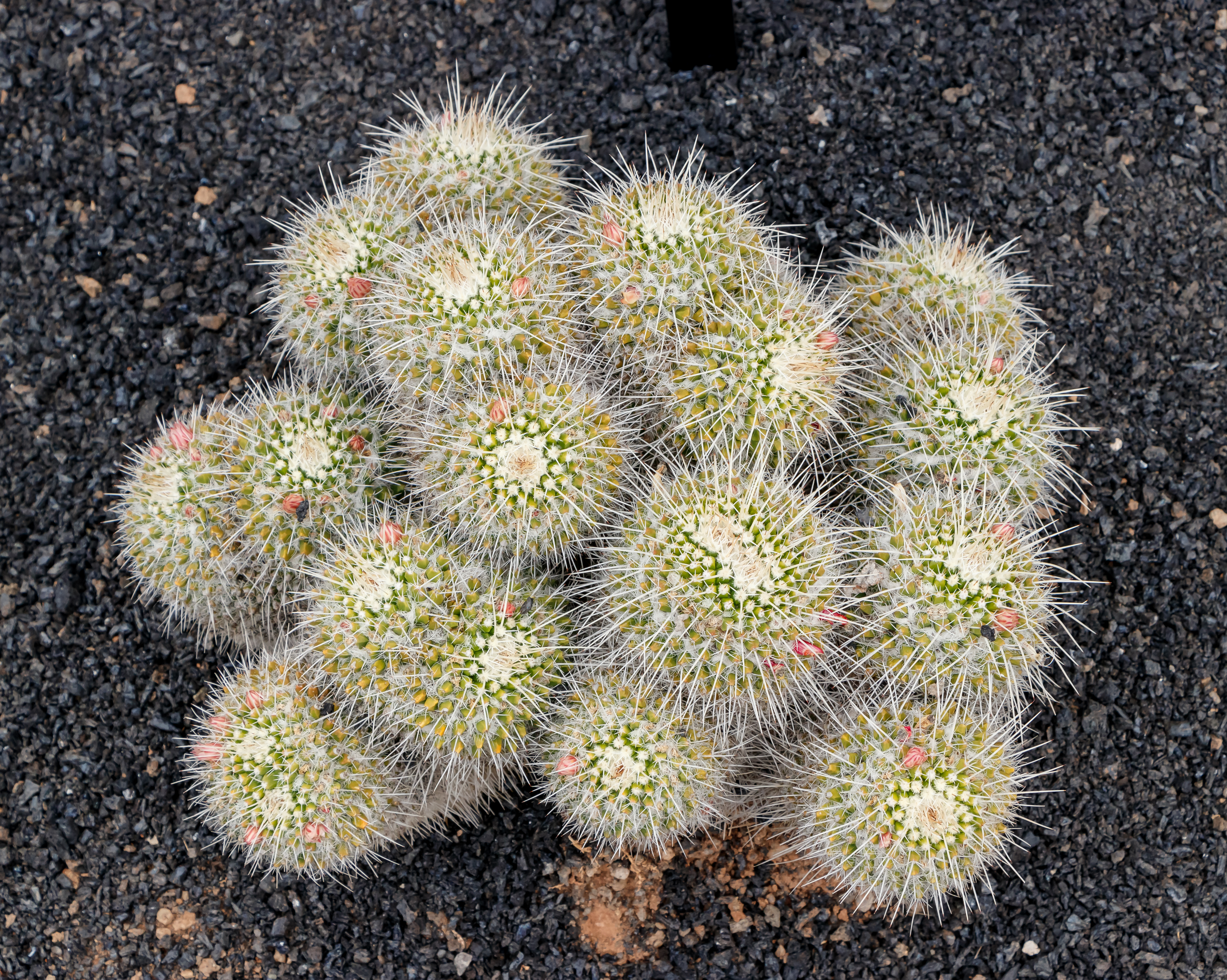 Mammillaria parkinsonii Ehrenb.; habitus; Jardin de Cactus, Guatiza, Lanzarote, Canary Islands, Spain.